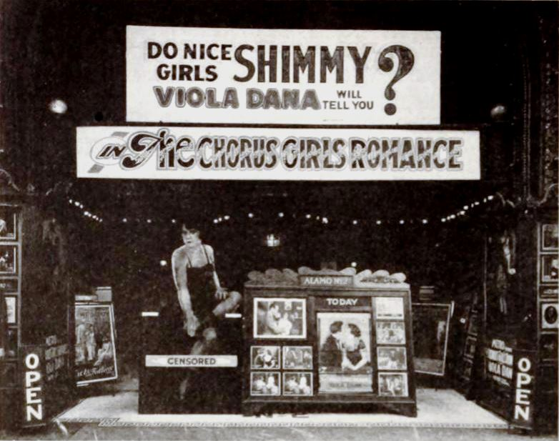 The Alamo Theater No. 2 in Atlanta, Georgia, with displays for its showing of the American comedy film The Chorus Girl's Romance (1920) with Viola Dana, on page 54 of the December 11, 1920 Exhibitors Herald. The cutout of Viola Dana had a mechanism that made her shoulders, which were mounted separately, move like a shimmy dancer. The chief of police arrived the next day and ordered the mechanism turned off, and the theater operator added a "censored" label to the cutout.